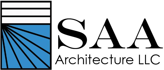 Logo for company